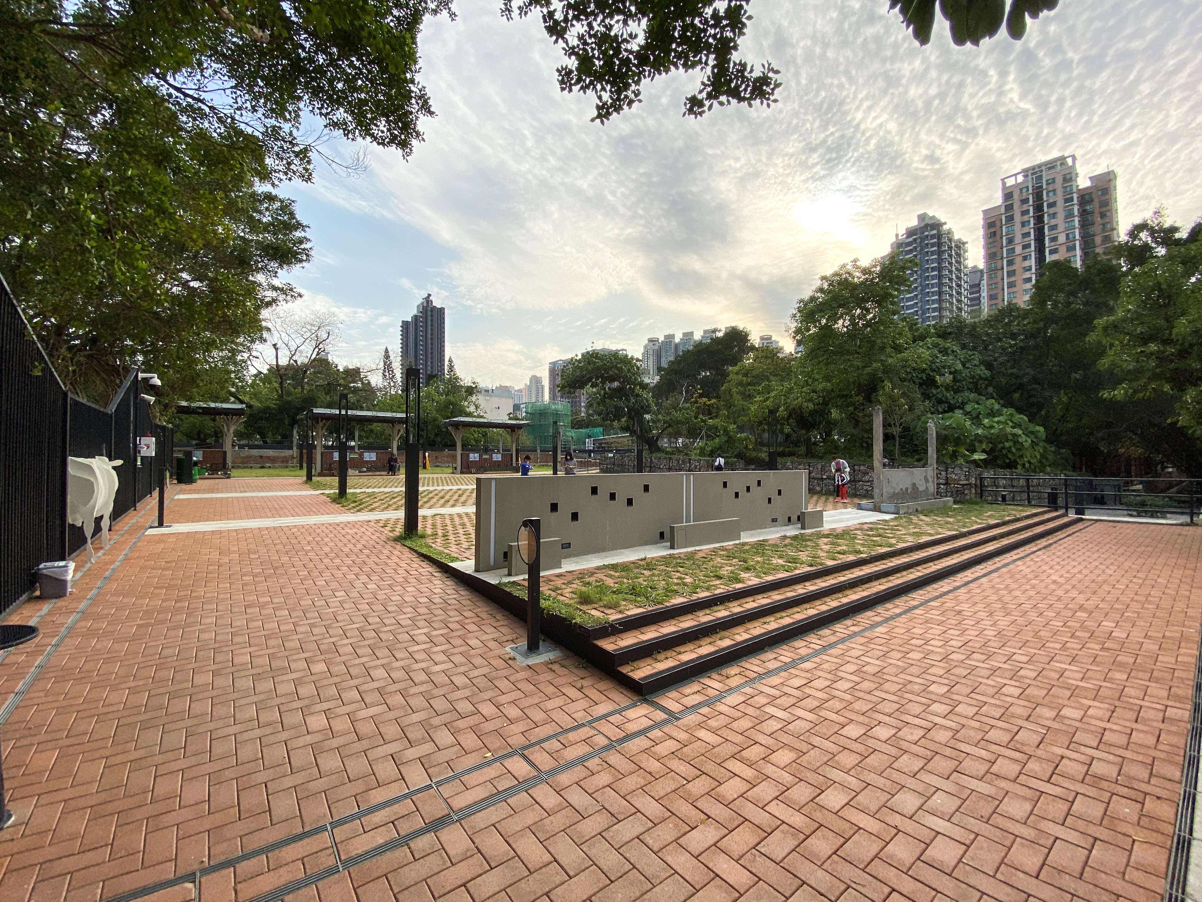 Cattle Depot Art Park